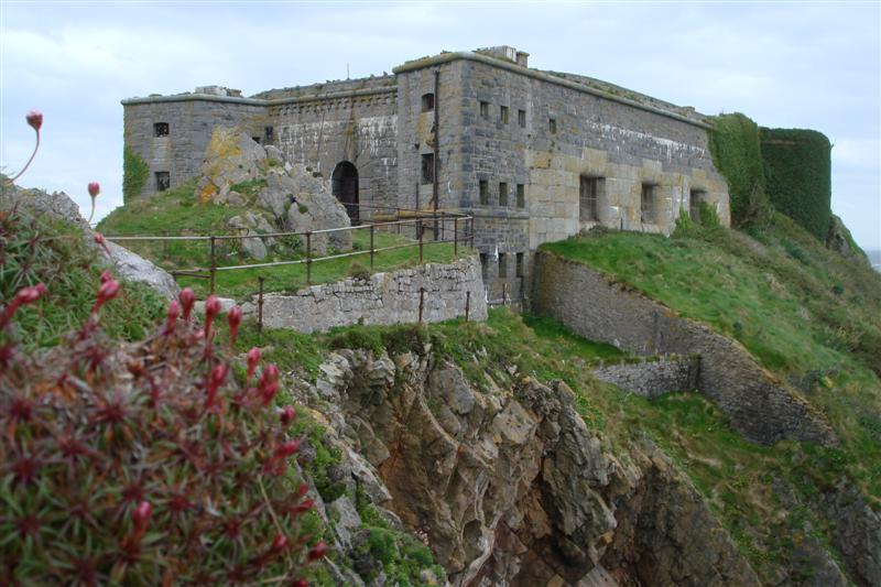 St Catherine's Fort, Tenby. Taken from on St Catherine's Island.